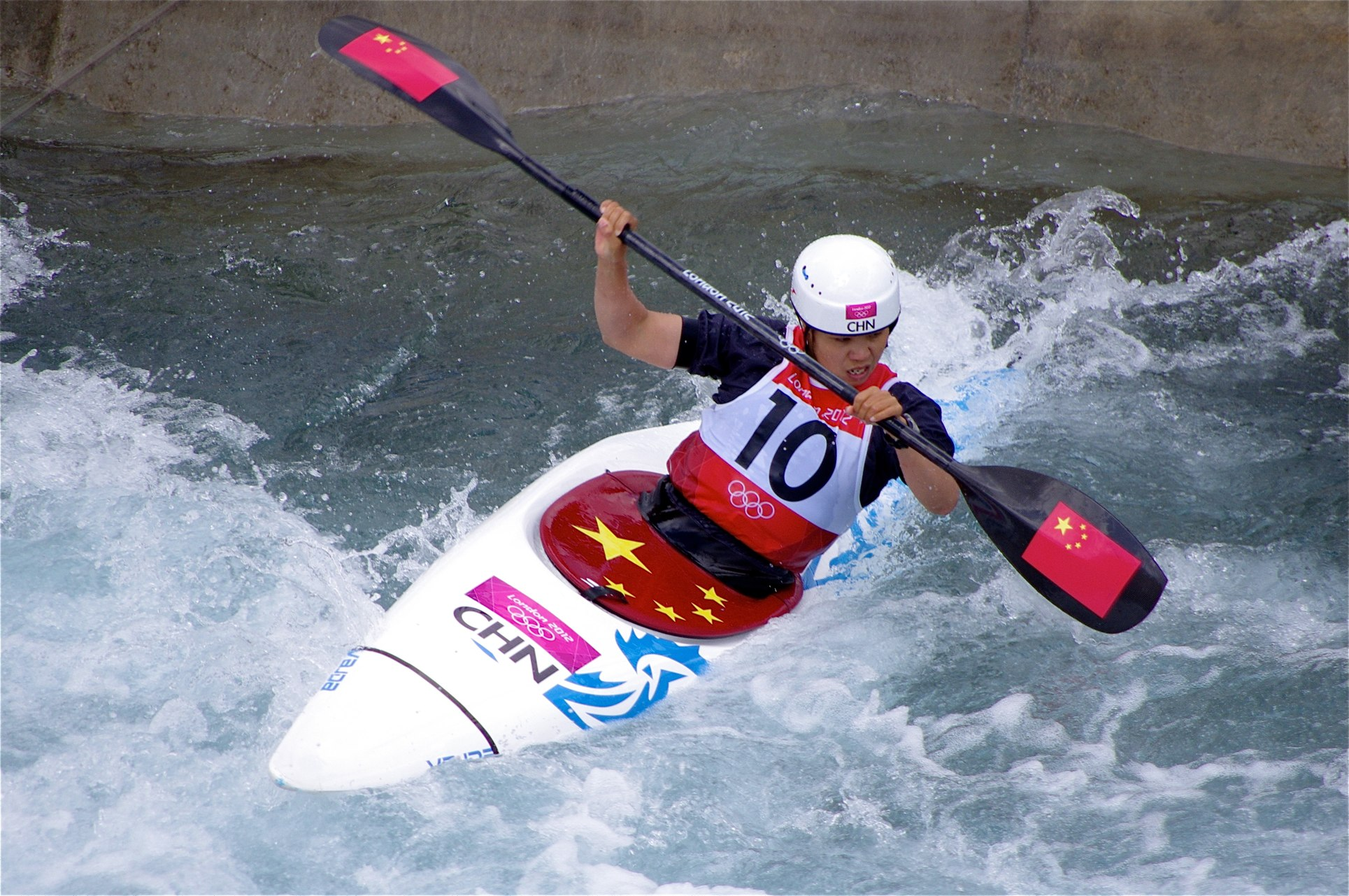 Canoeing at the 2012 Summer Olympics – Women's slalom K-1 Li Jingjing (CHN)